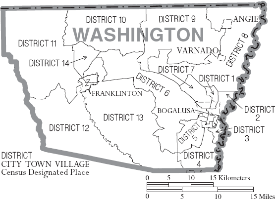 Map of Washington Parish, Louisiana, United States with municipal and district boundaries